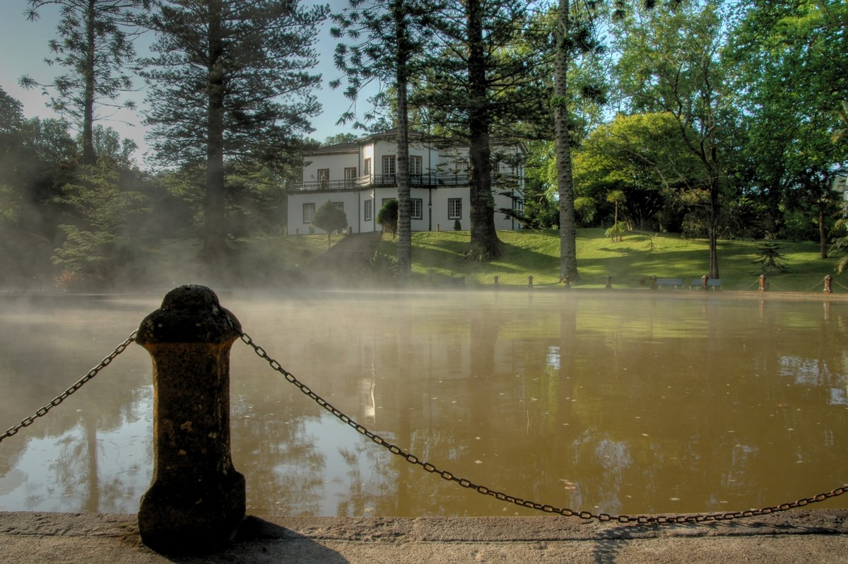 Thermal bath in Terra Nostra Garden, Furnas, Azores.